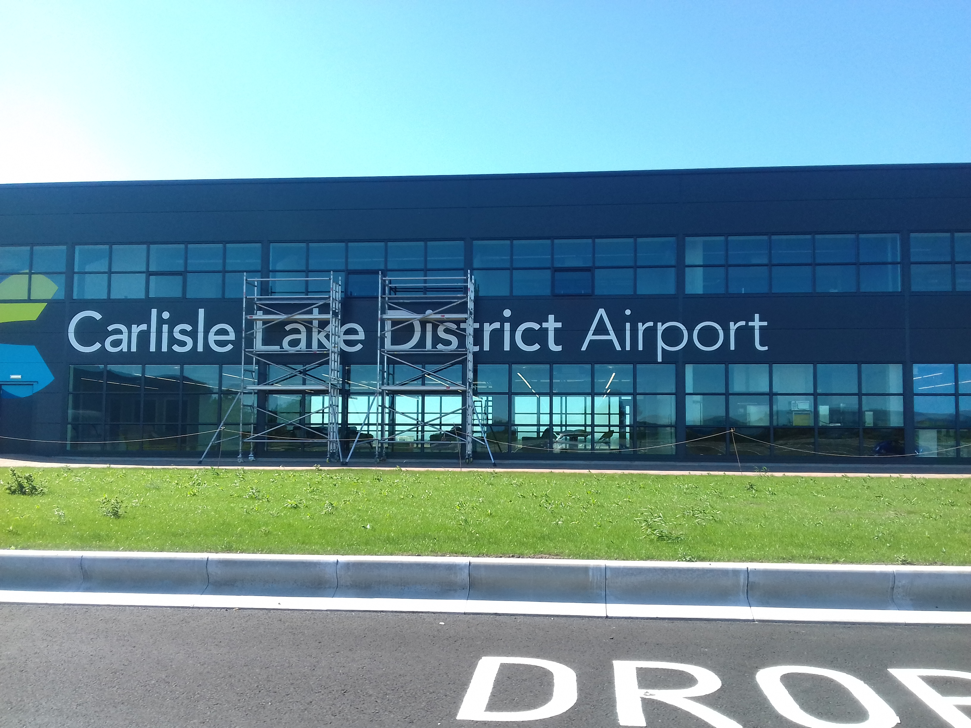 The new terminal building at Carlisle Lake District Airport (EGNC)